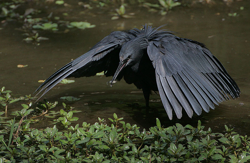 Image taken at Abuko. This small dark heron uses a cloak & dagger fishing technique where it creates an umbrella with its wings attracting small fish in under the shade only to be snapped up. The Gambia.